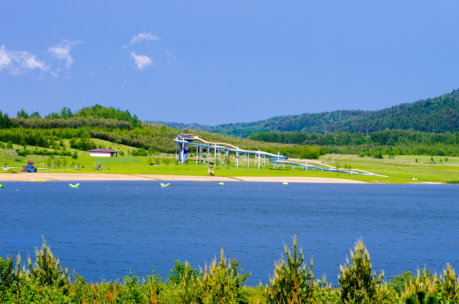 Sokolov, basin Michal